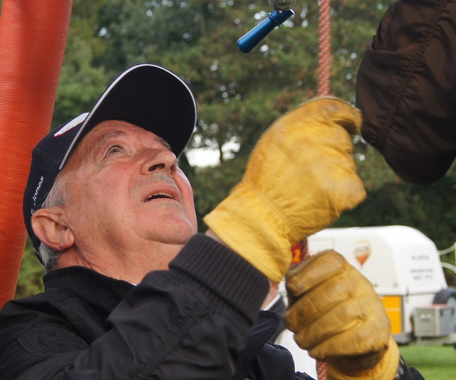 Brian Jones in balloon